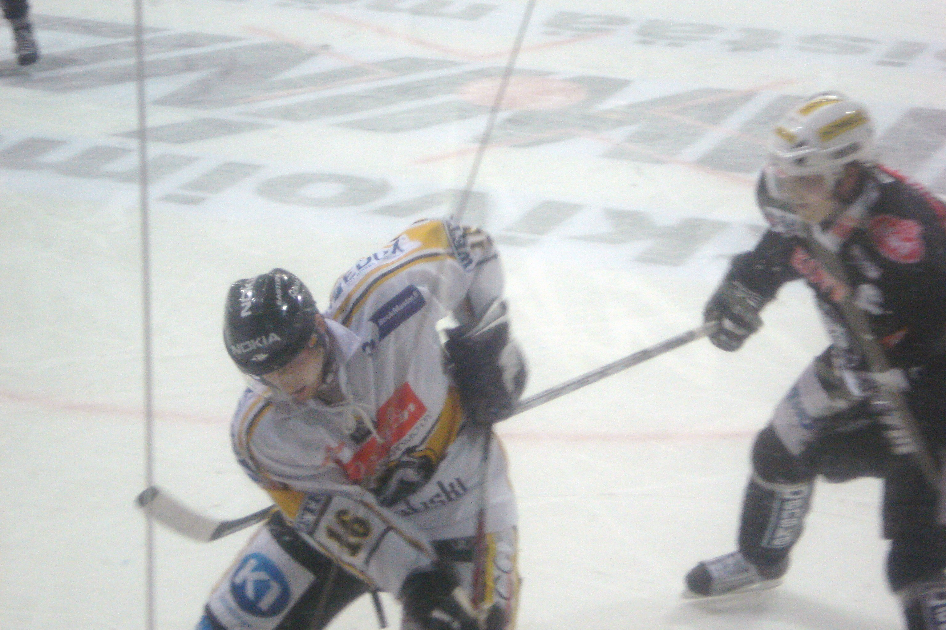 Oulun Kärpät forward number 16, Toni Dahlman